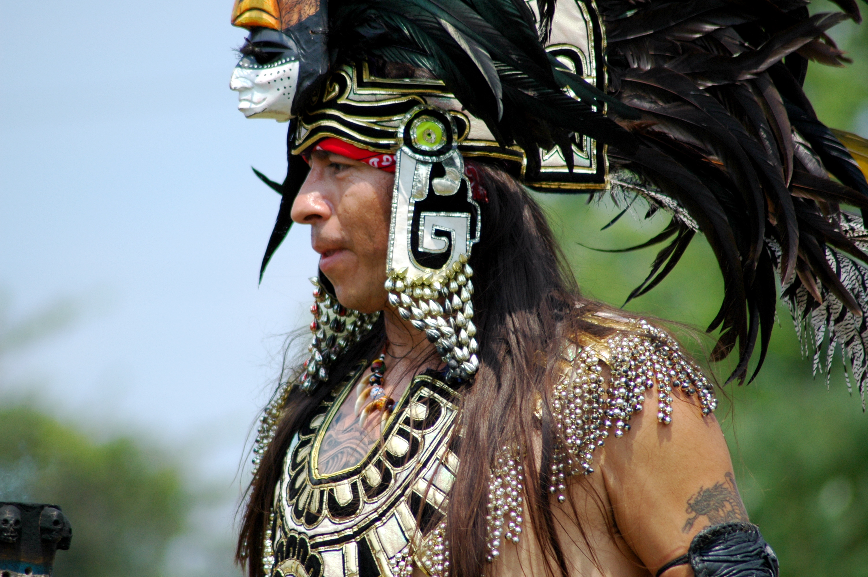 Howard County, Maryland, 2007 Pow-wow. photographer: Jeff Kubina photographer_url: [1] flickr_url: [2] taken:July 15, 2007